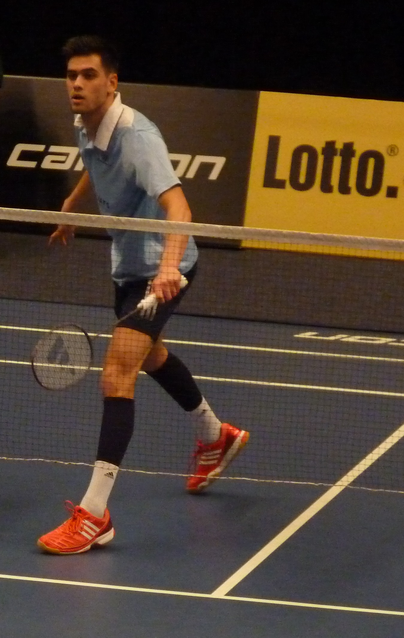 Nick Fransman (the Netherlands)